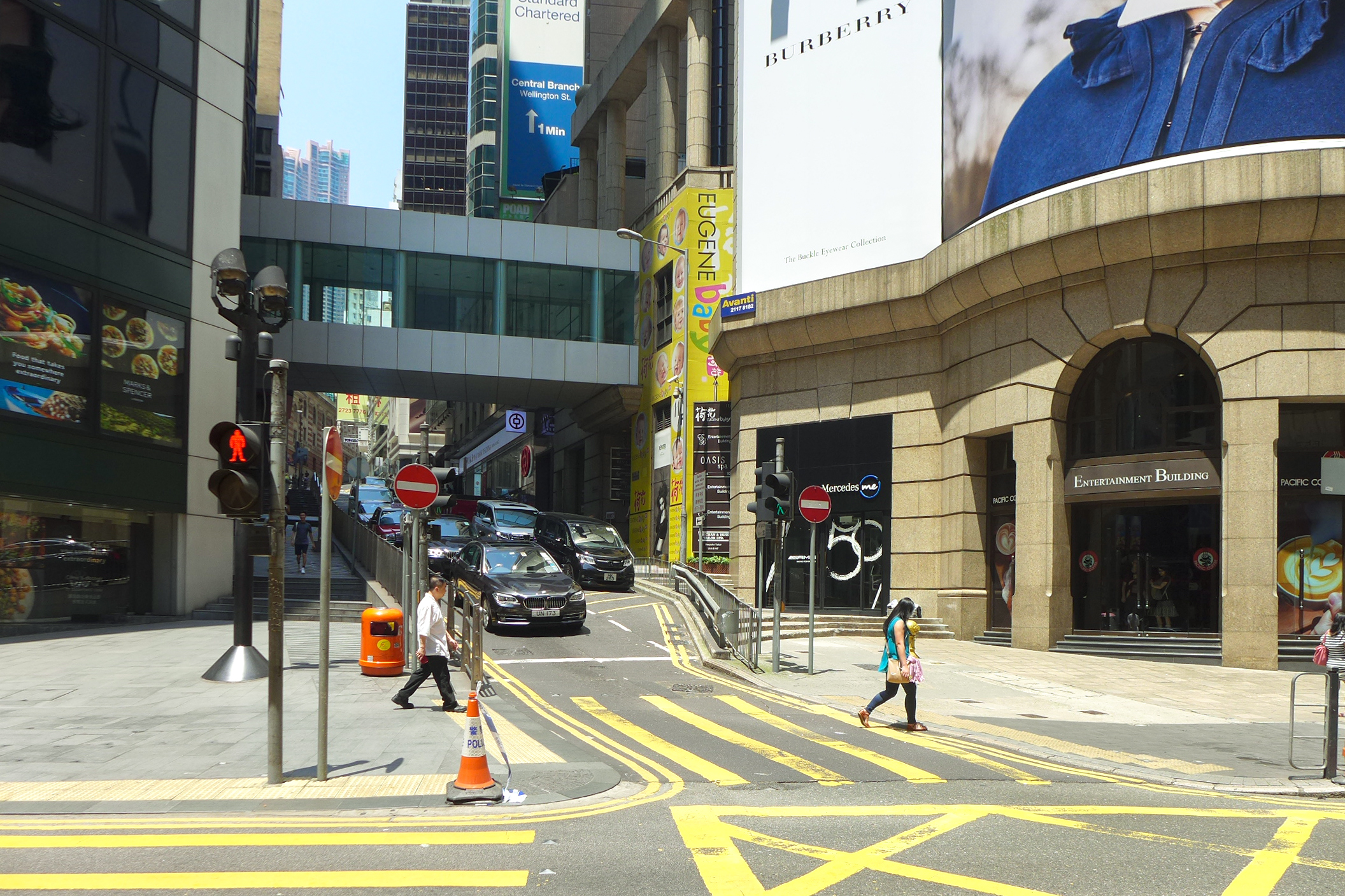 Wyndham Street